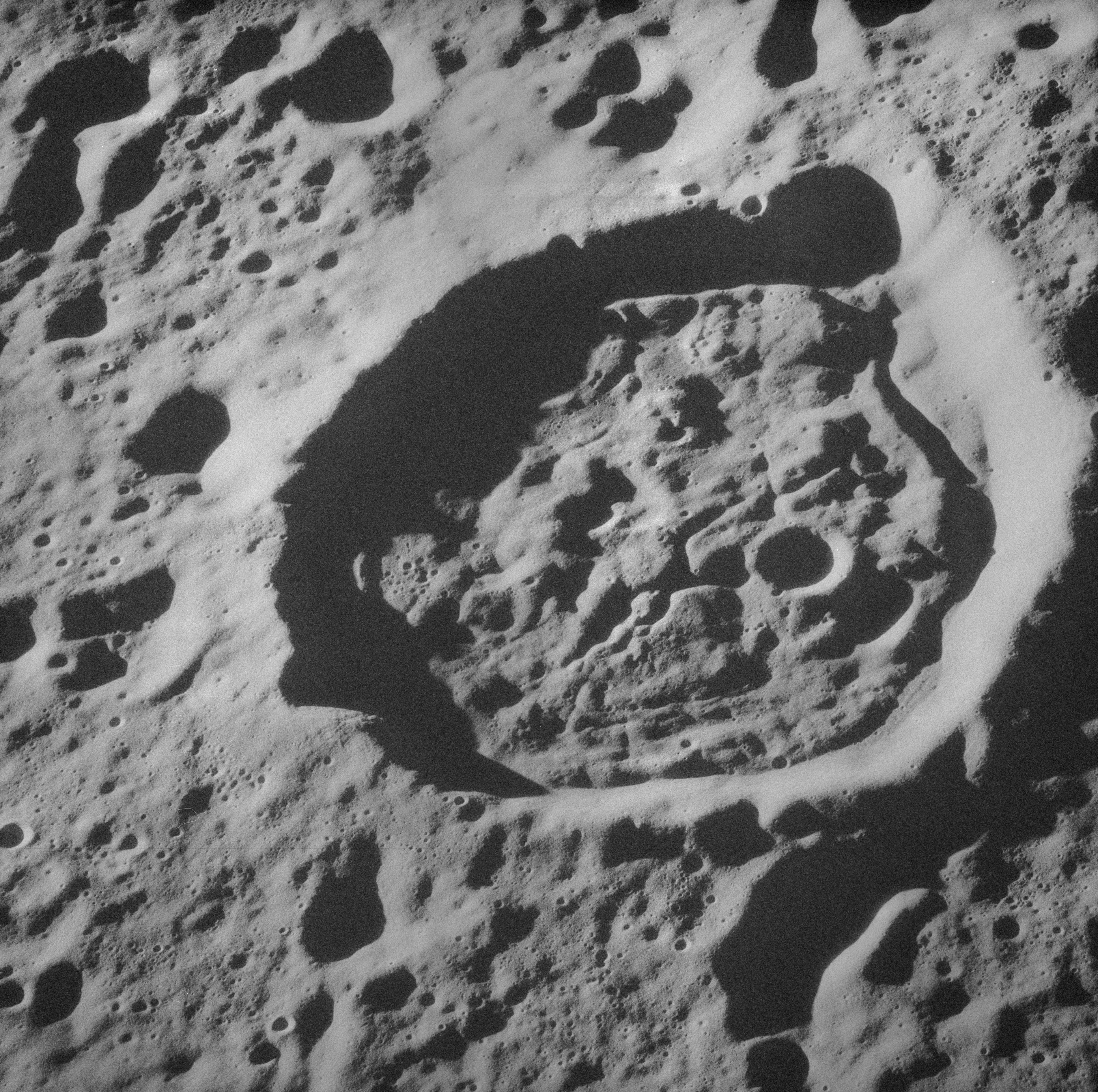 Oblique view of Zwicky N crater (within Zwicky itself), facing northeast, on the far side of the moon.